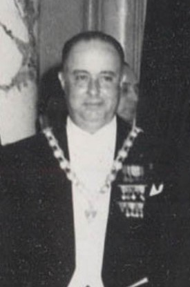 Le général Anastasio Somoza Garcia, président du Nicaragua, lors d'une visite à Ciudad Trujillo ( nom de Saint-Domingue sous la dictature de Rafael Trujillo) en août 1952, lors de l'investiture de Hector Trujillo au poste de président de la République Dominicaine.